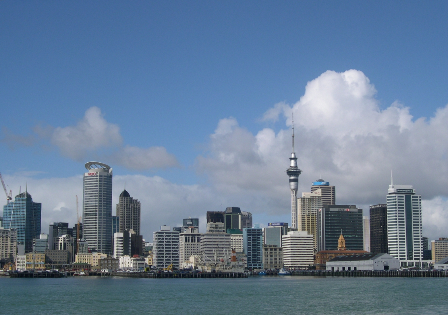 Auckland New Zealand, Skyline from Harbour